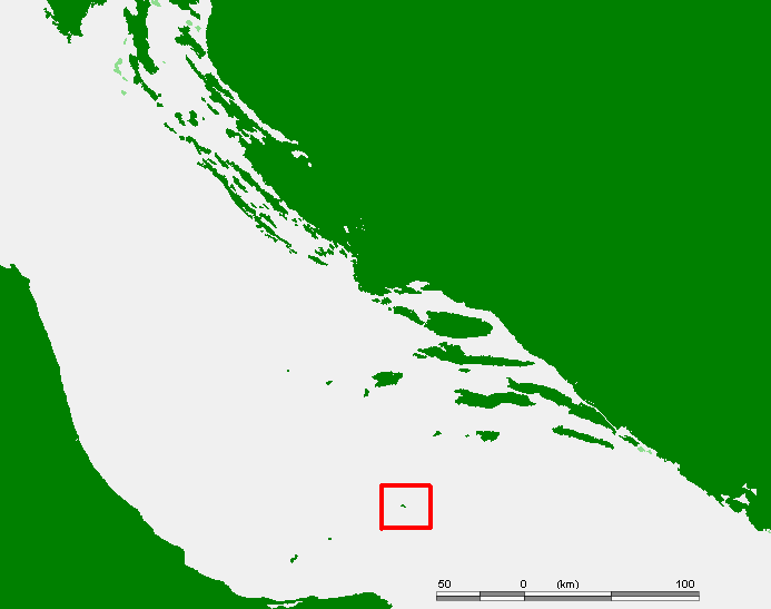 ( Description Island of Croatia - Croatia - pelagosa.PNG DateUnknown dateSourceown work based on PD mapAuthoredited by M.MinderhoudPermission (Reusing this file) This image is in the public domain because it came from the site and was released by the copyright holder. Permission is granted to copy, distribute and/or modify this map since it is based on free of copyright images from: See also approval email on de.wp and its clarification. This work has been released into the public domain by its author, This applies worldwide. In some countries this may not be legally possible; if so: grants anyone the right to use this work for any purpose, without any conditions, unless such conditions are required by law. Island of Croatia - Croatia - pelagosa.PNG